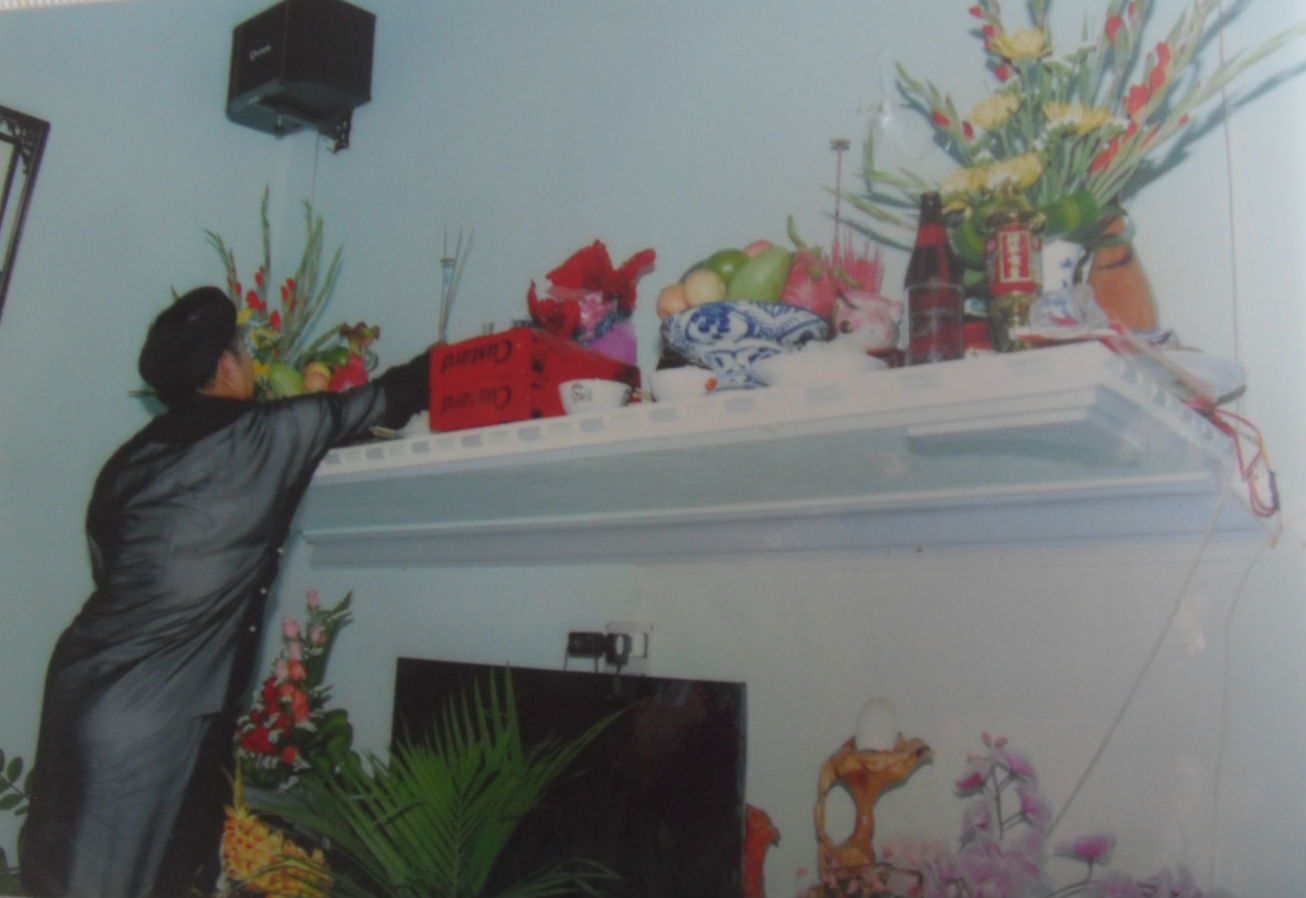 dam cuoi.jpg